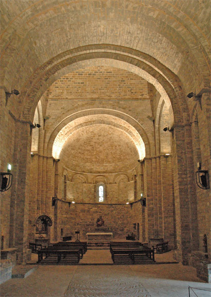 San Pedro de Siresa Monastery. Siresa, Huesca, Spain